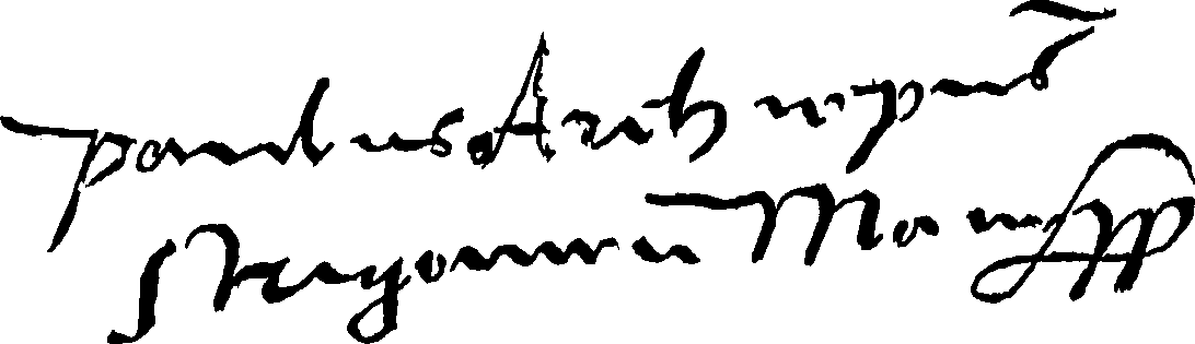 signature of Pál Várdai, archbishop of Esztergom.